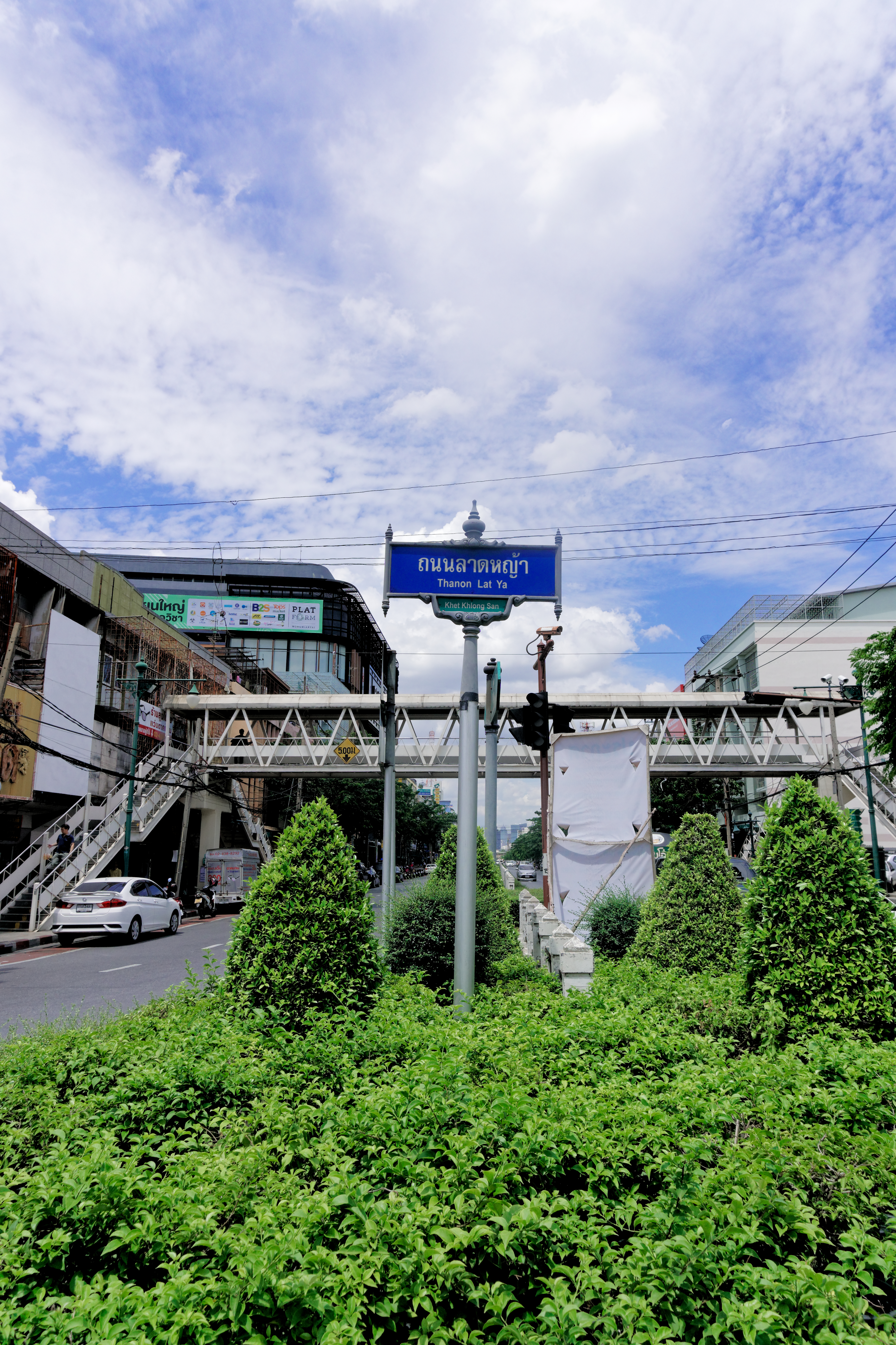 Lat Yaa rd. sign The sign is installed at the beginning of the road near king Taksin's statue roundabout.